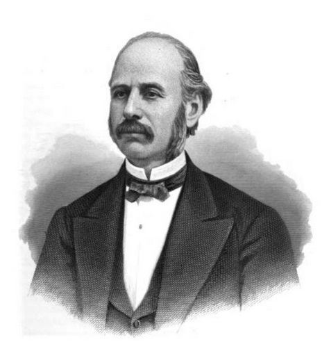 Amasa Stone, American engineer, bridge builder, and railroad owner.